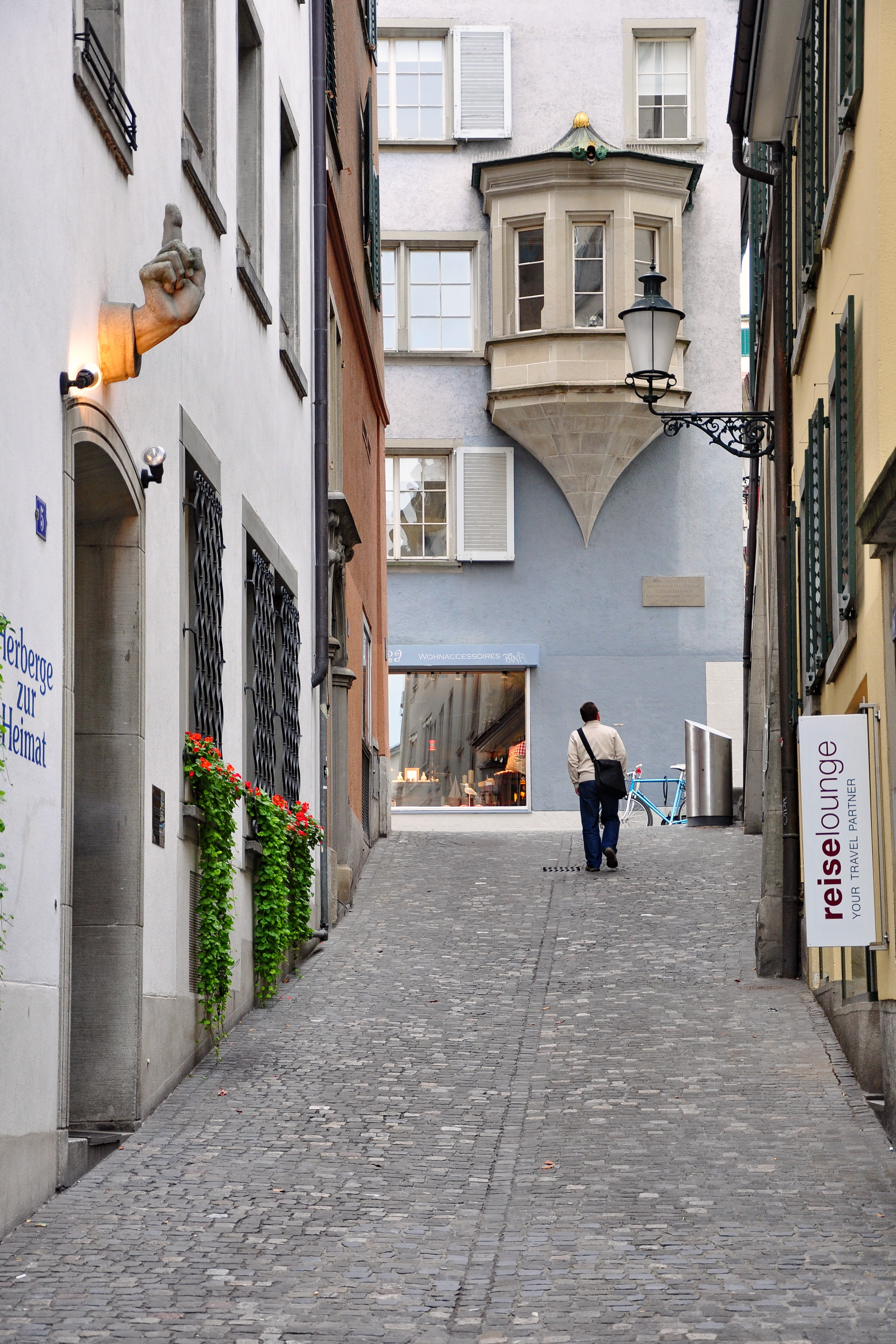 Zürich-Oberdorfstrasse : «Haus zum Steinernen Erggel» at Trittligasse, former home of Gerold Edlibach (* 1454; † 1530)